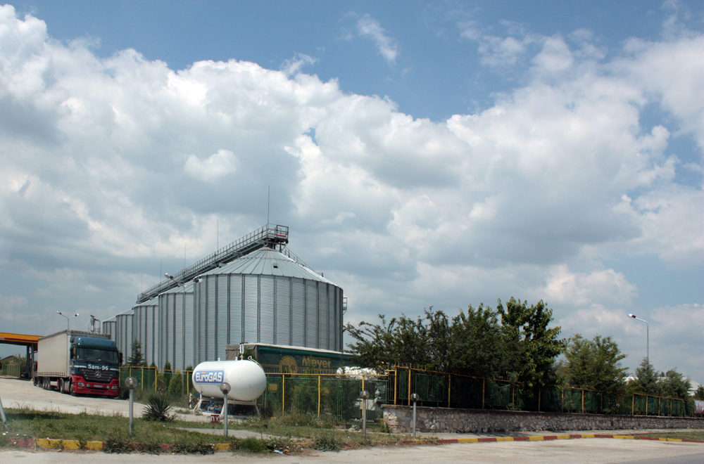 Rice mills in Gelemenovo, Bulgaria